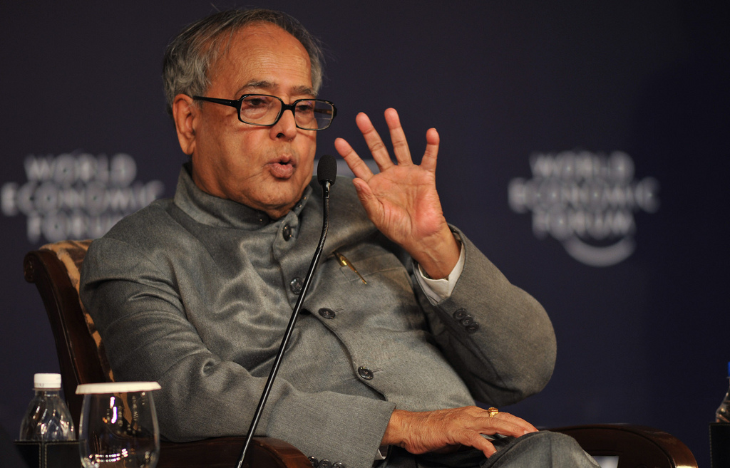 Minister of Finance Pranab Mukherjee in the Plenary Session Post-Crisis Economic Order: How Can Free Market and control be Balanced? Participants captured during the World Economic Forum's India Economic Summit 2009 held in New Delhi, 8-10 November 2009.